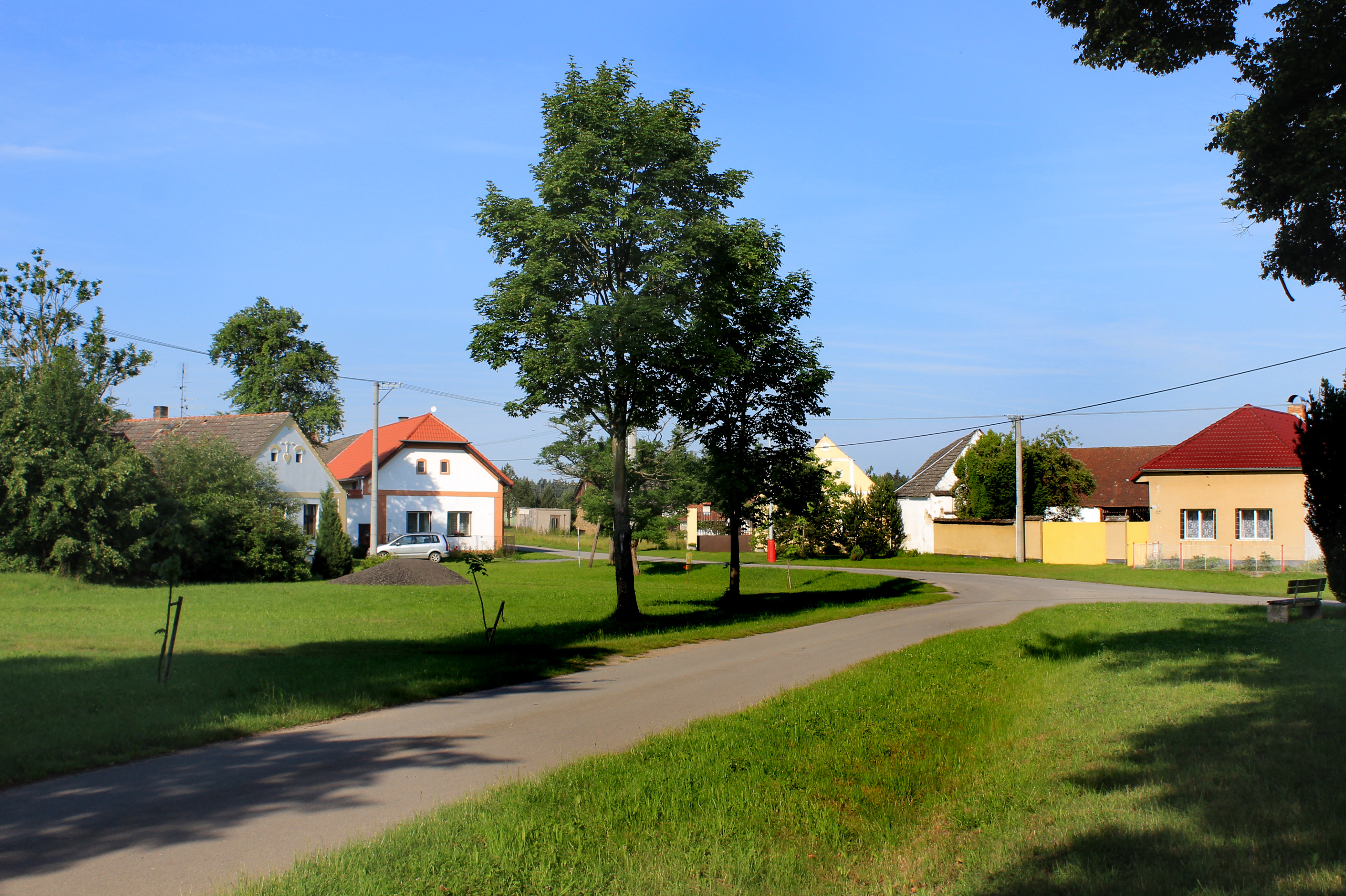 Common in Val village, Czech Republic.